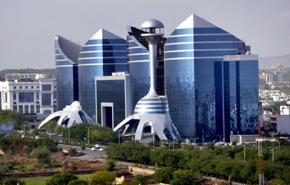 Under Construction photo in August 2012 of soon to be opened World Trade Park at JLN Marg, Malviya Nagar, Jaipur, Rajasthan - India. WTP will offer office spaces, apartments, entertainment area and many new first time attraction to Jaipur city.